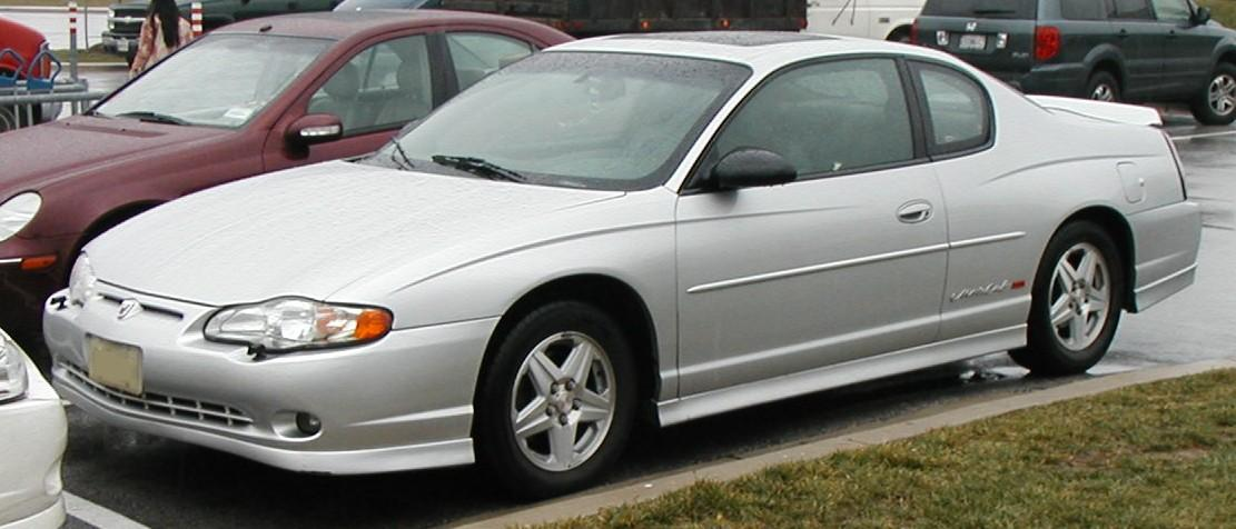 2004-2005 Chevrolet Monte Carlo photographed in USA.